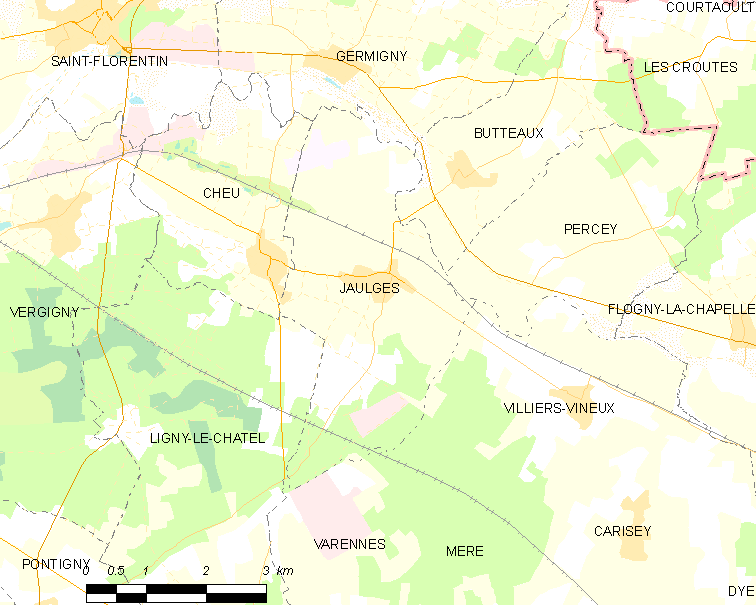 Map of French municipality Jaulges